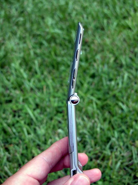 Thin mobile phone